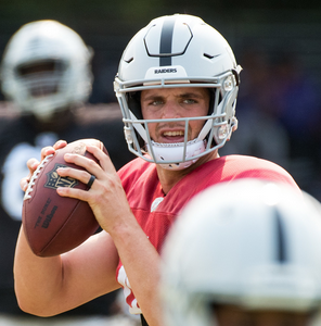 Derek Carr in 2018 (cropped using scissor tool)